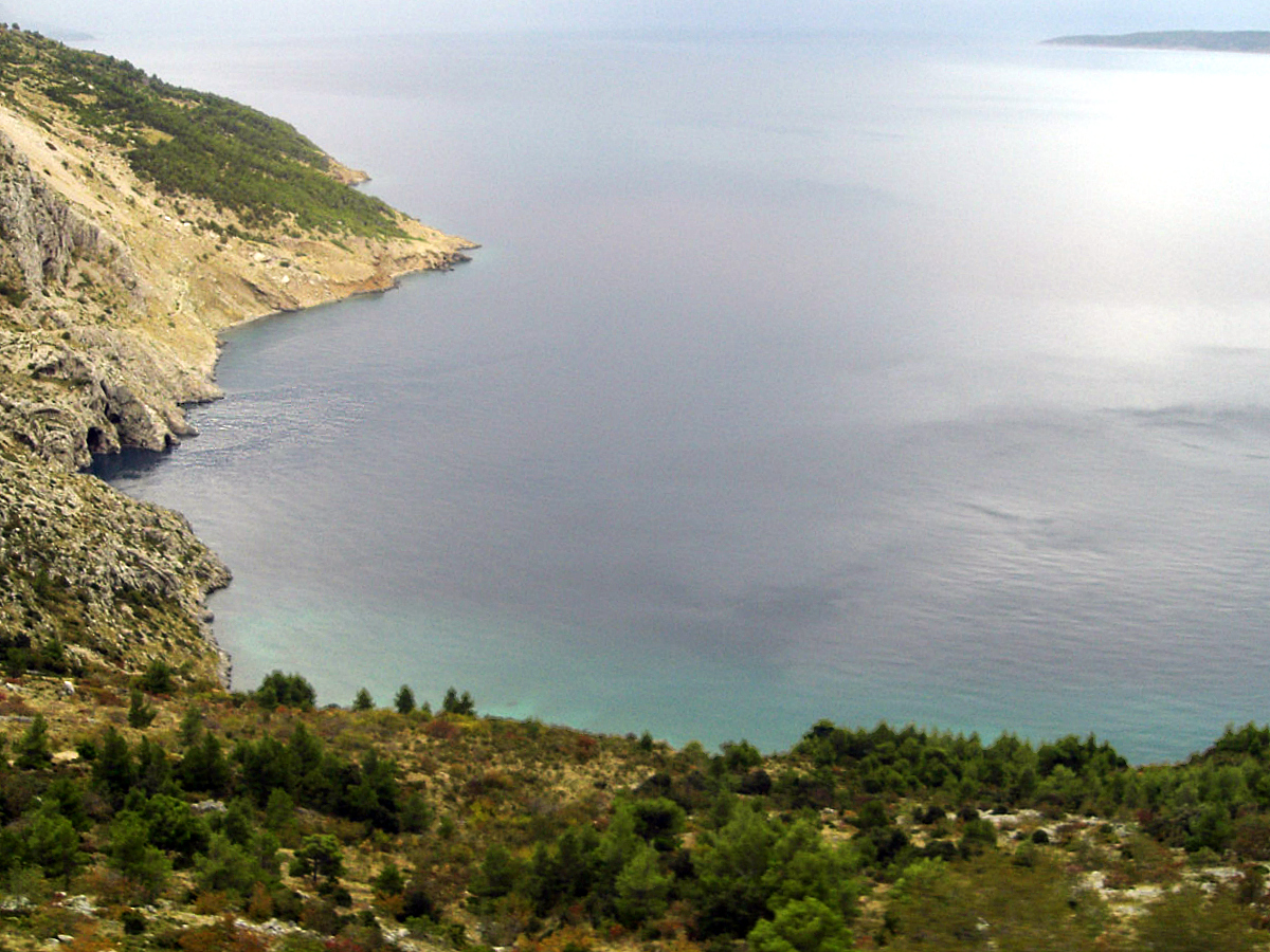 Submarine karst spring, emerging fresh water in the Adriatic Sea. "Vrulja Bay", South Croatia. 4,5km N of Brela, half way between Omiš and Makarska. Submarine, because the sea's water level rose by ca. 120 m since late Pleistocene (last glacial period, 25ka) and karstification of the Biokovo mountains continues to an even lower level.